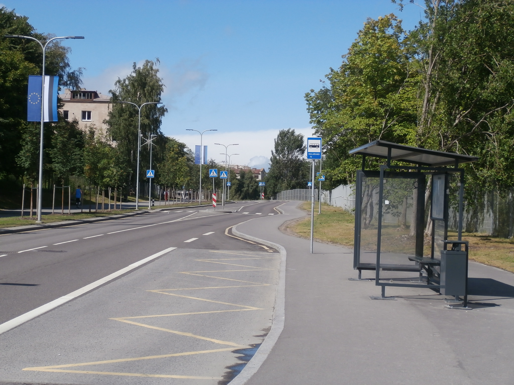 Bus stop ‘Kalarand’, Kalaranna, Tallinn 4 August 2017